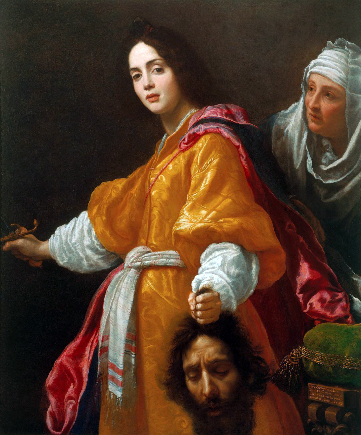 showing self-portrait of artist as head of Holofernes